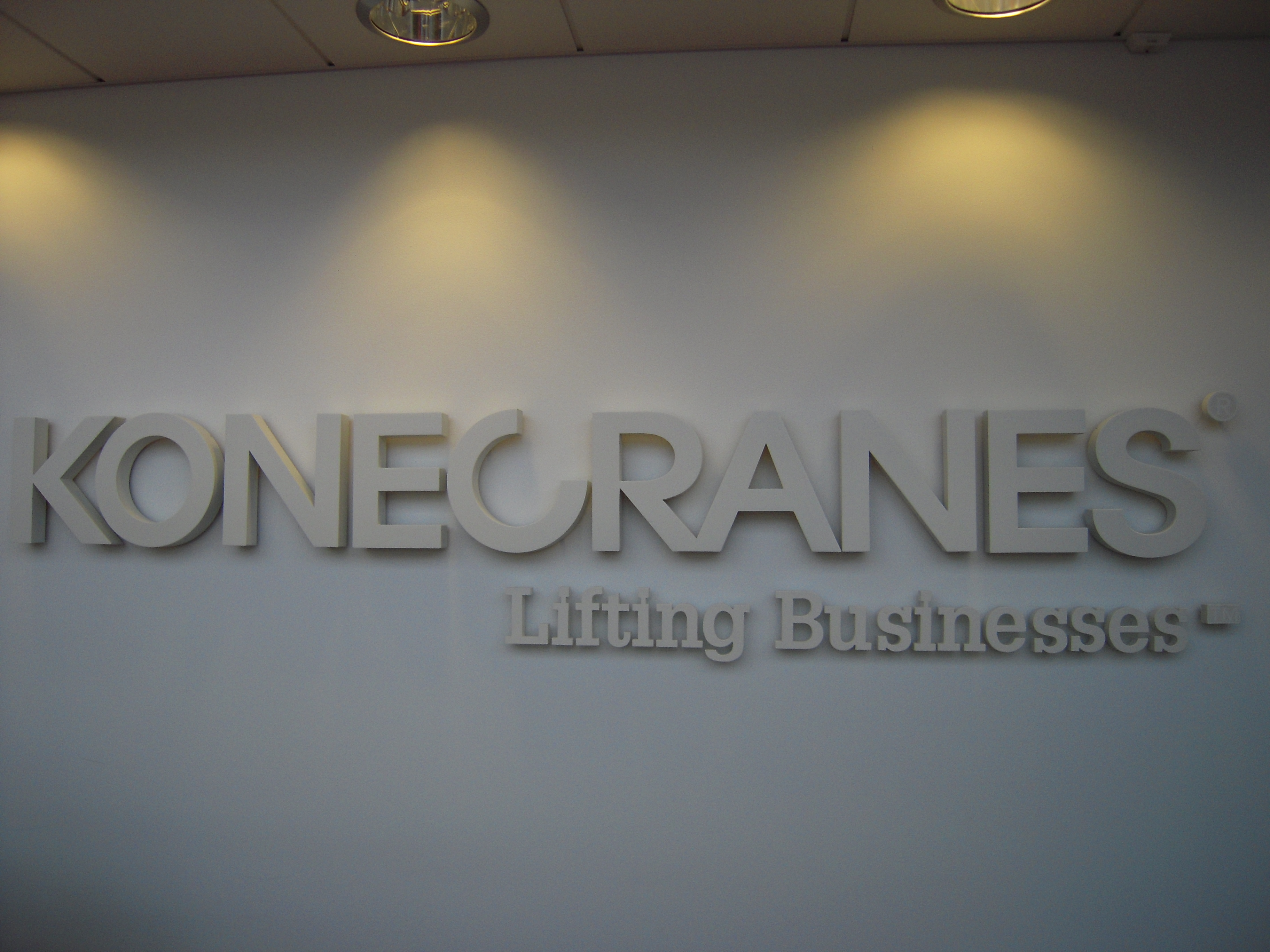 The slogan of Konecranes: Lifting businesses